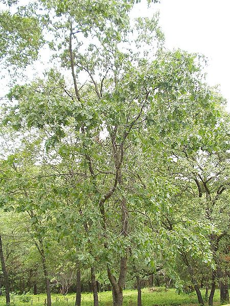 Young California Black oaks, Quercus kelloggii